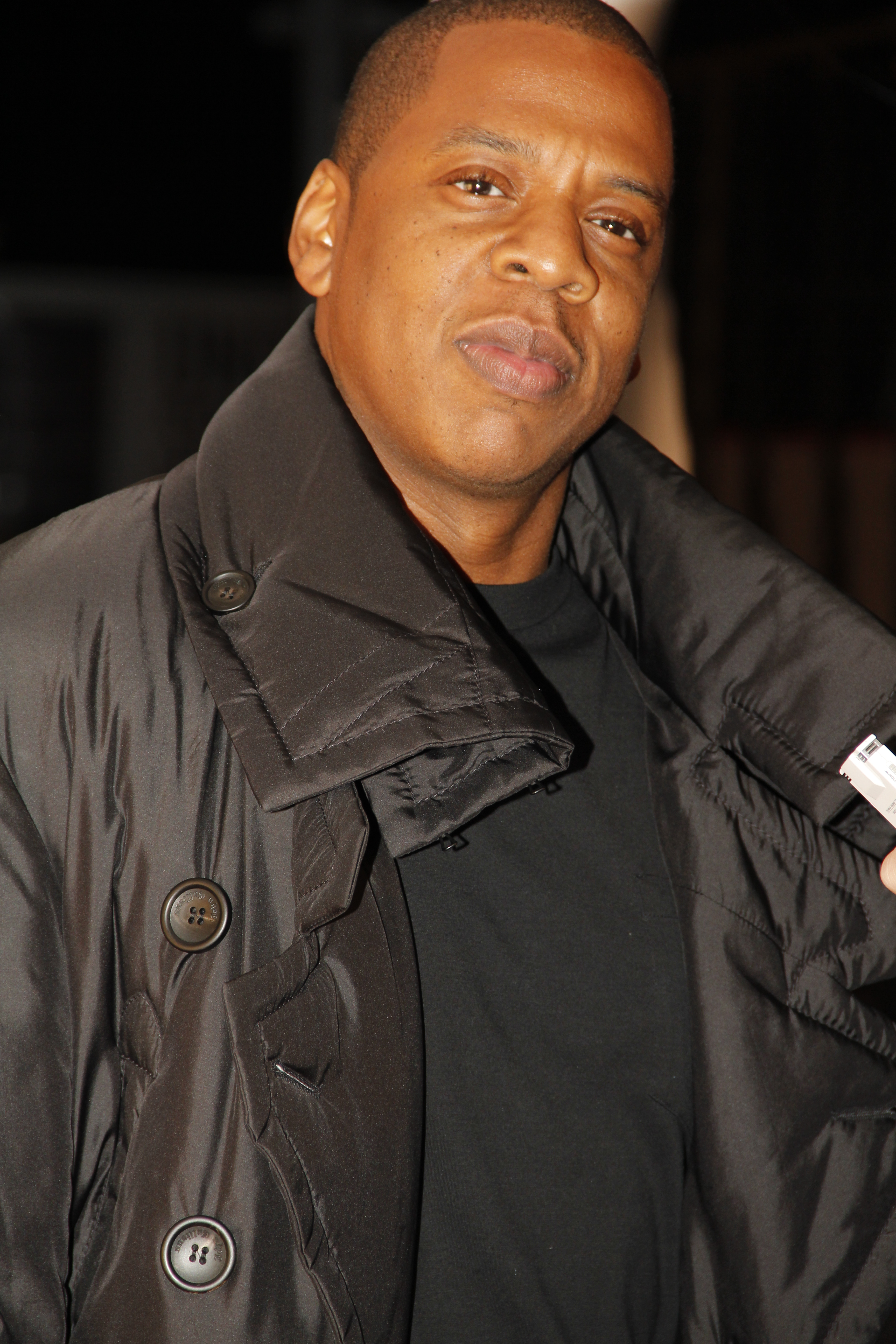 Shawn 'Jay-Z' Carter Foundation Carnival 2011.